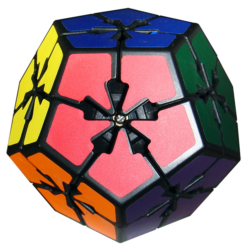 Meffert's Flowerminx, black body.